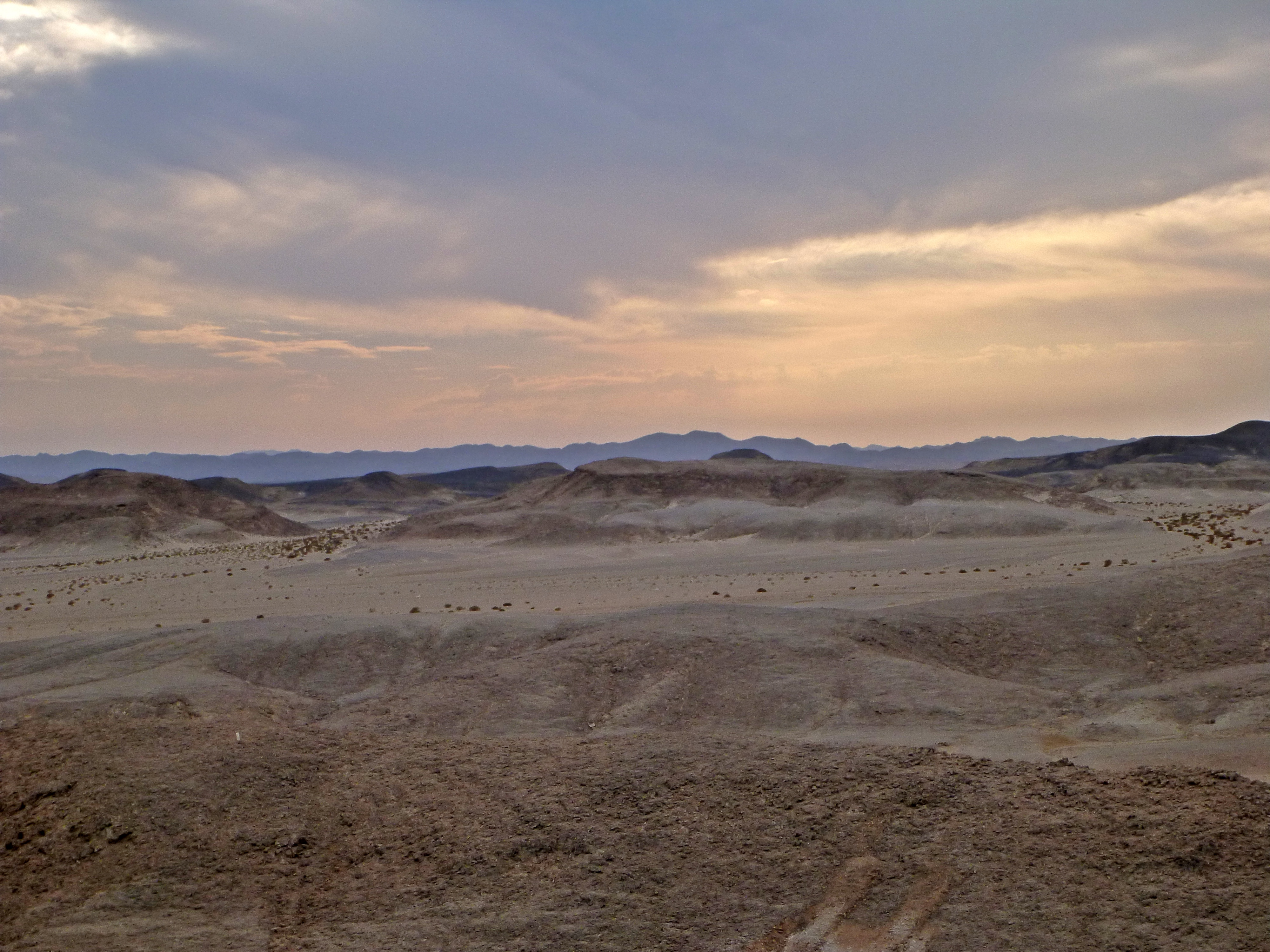 Desert in the Gouvernement al-Bahr al-ahmar at the Red Sea coast in the vicinity on Marsa Alam